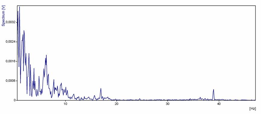 Fourier transform of infrasound recording